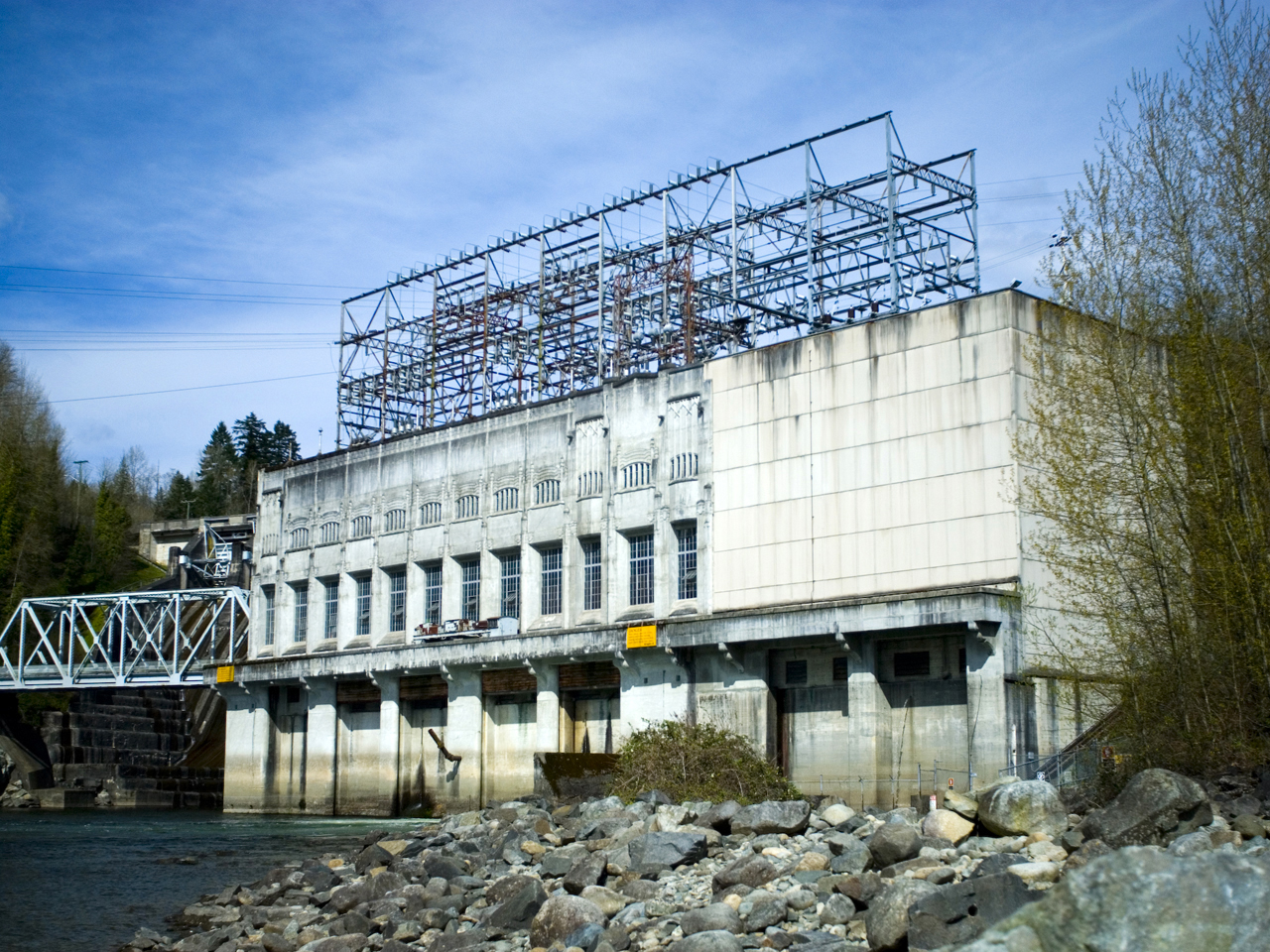 BC Hydro's Ruskin Generating Station, in Ruskin, British Columbia (Canada). Commissioned in 1931, the 105-MW hydroelectric power plant is part of the Stave River power developent.